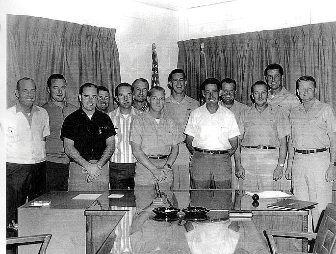 CIA’s A-12 “drivers” and managers: (l. to r.) Layton, Sullivan, Vojvodich, Barrett, Weeks, Collins, Ray, BGen Ledford, Skliar, Perkins, Holbury, Kelly, and squadron commander Col. Slater.